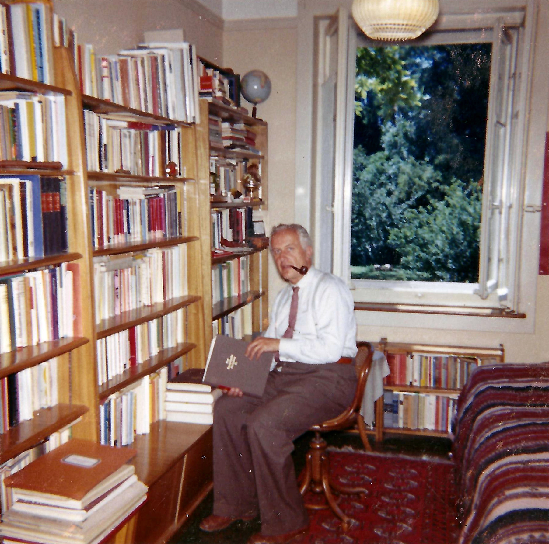 Hans Martin Sutermeister at home in Bern (Switzerland), August 1961